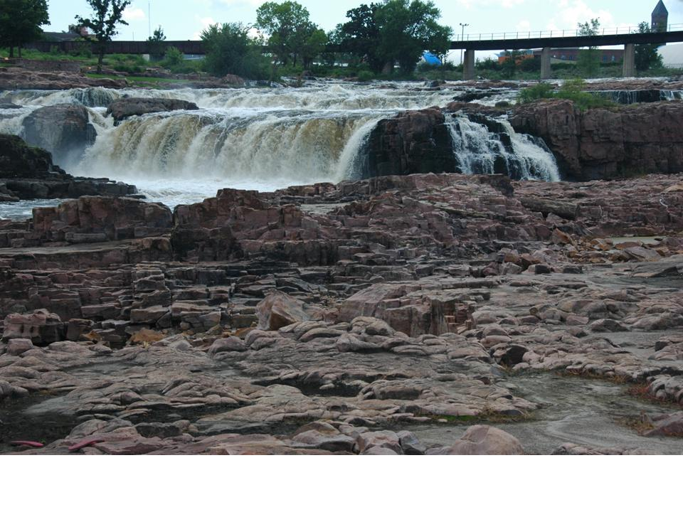 Sioux Quartzite (1.65-1.70 Ga) along the Big Sioux River at Sioux Falls, southeastern South Dakota, USA.